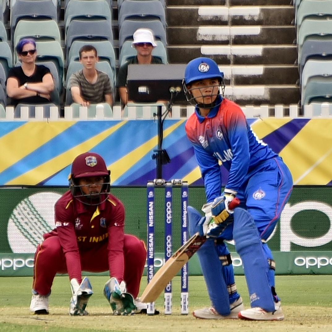 Wongpaka Liengprasert batting for Thailand against the West Indies during their 2020 ICC Women's T20 World Cup match at the WACA Ground in Perth, Australia. The wicket-keeper is Shemaine Campbelle